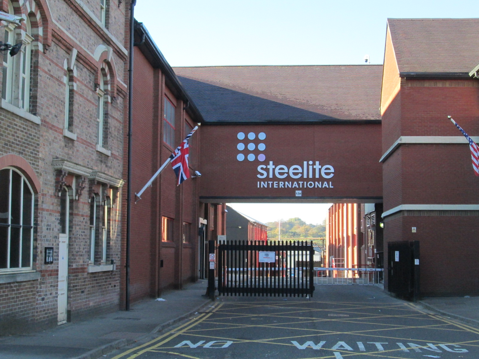 The main entrance to Steelite International, on Newcastle Street, Middleport, a district of Burslem.